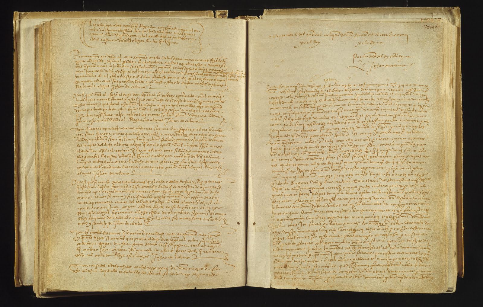 Register of the Capitulations of Santa Fe (Granada) of Christopher Columbus with the Catholic Monarchs, preserved at the Archive to the Crown of Aragon (formerly known as Royal Archive of Barcelona).